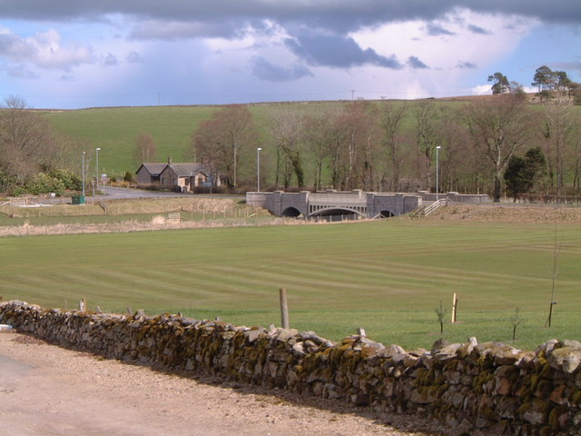 Methlick Bridge, Aberdeenshire, a cast-iron structure built in 1844